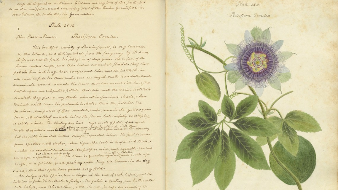 Botanical illustration and description by Nancy Anne Kingsbury Wollstonecraft of the Cuban Blue Passion Flower, Vol. I, Pl. 25, ca. 1826.